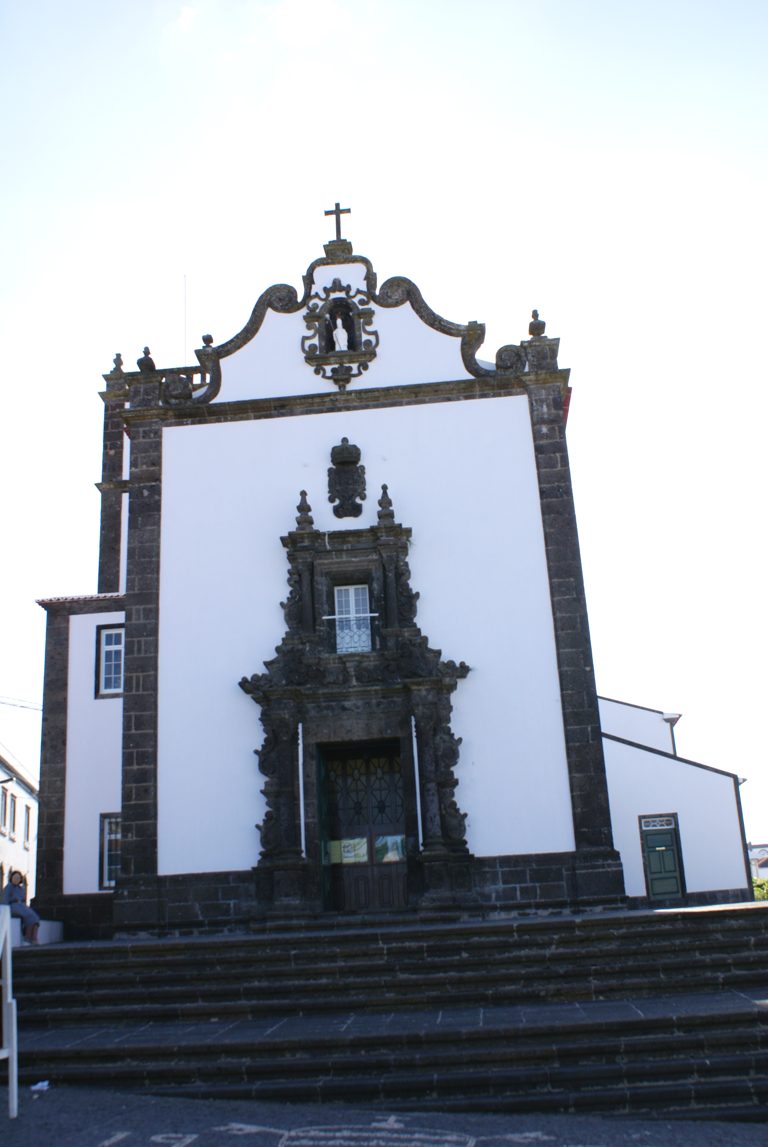 Front façade of the Church of São Pedro, Vila Franca do Campo, São Miguel (Azores), Portugal